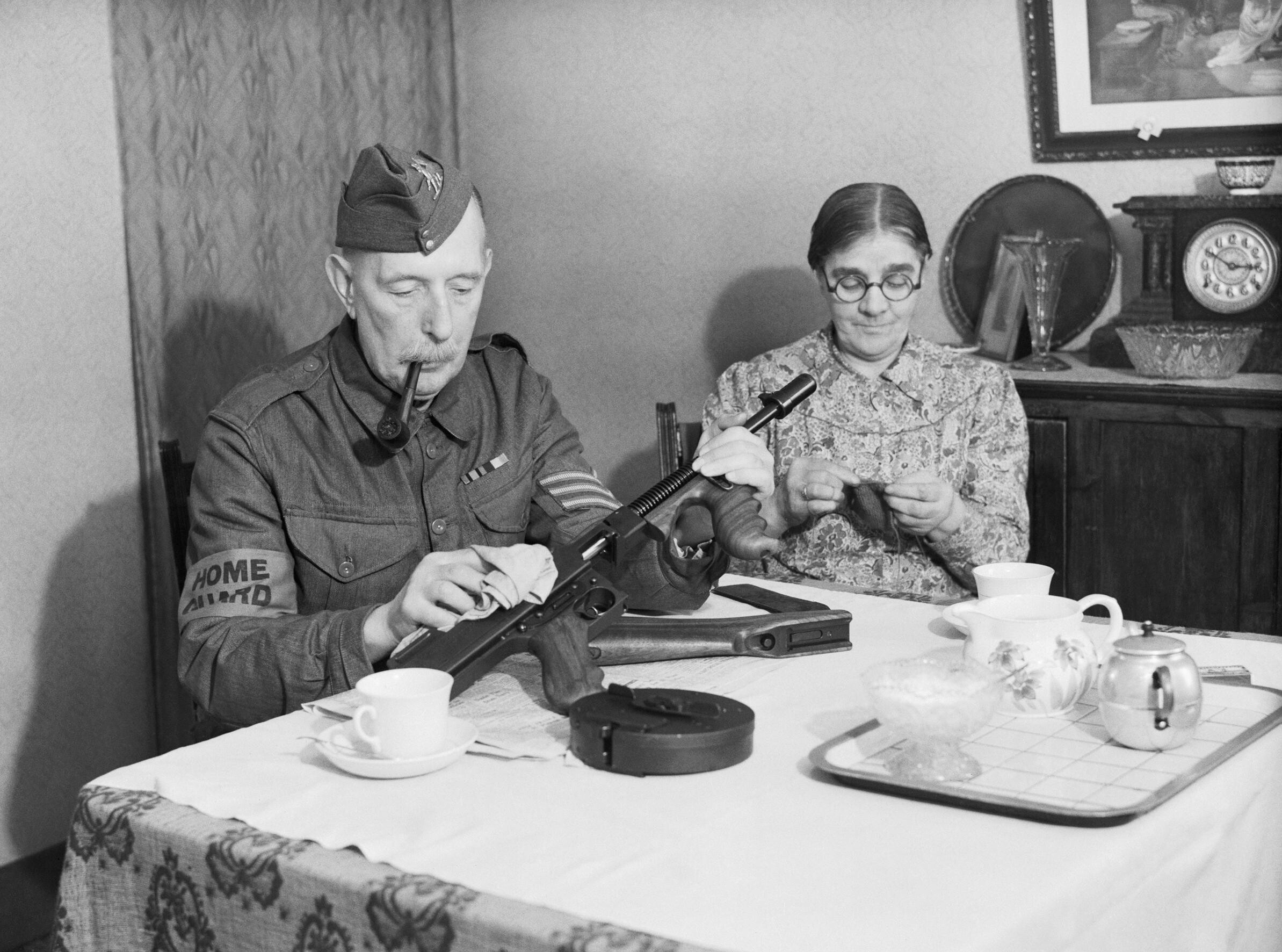 A veteran sergeant in the Dorking Home Guard cleans his Tommy gun at the dining room table, before going on parade, 1 December 1940. The Home Guard: Seated at the dining table with his wife, a Sergeant of the Dorking Home Guard in Surrey, England gives his Tommy gun a final polish before leaving home to go on parade.